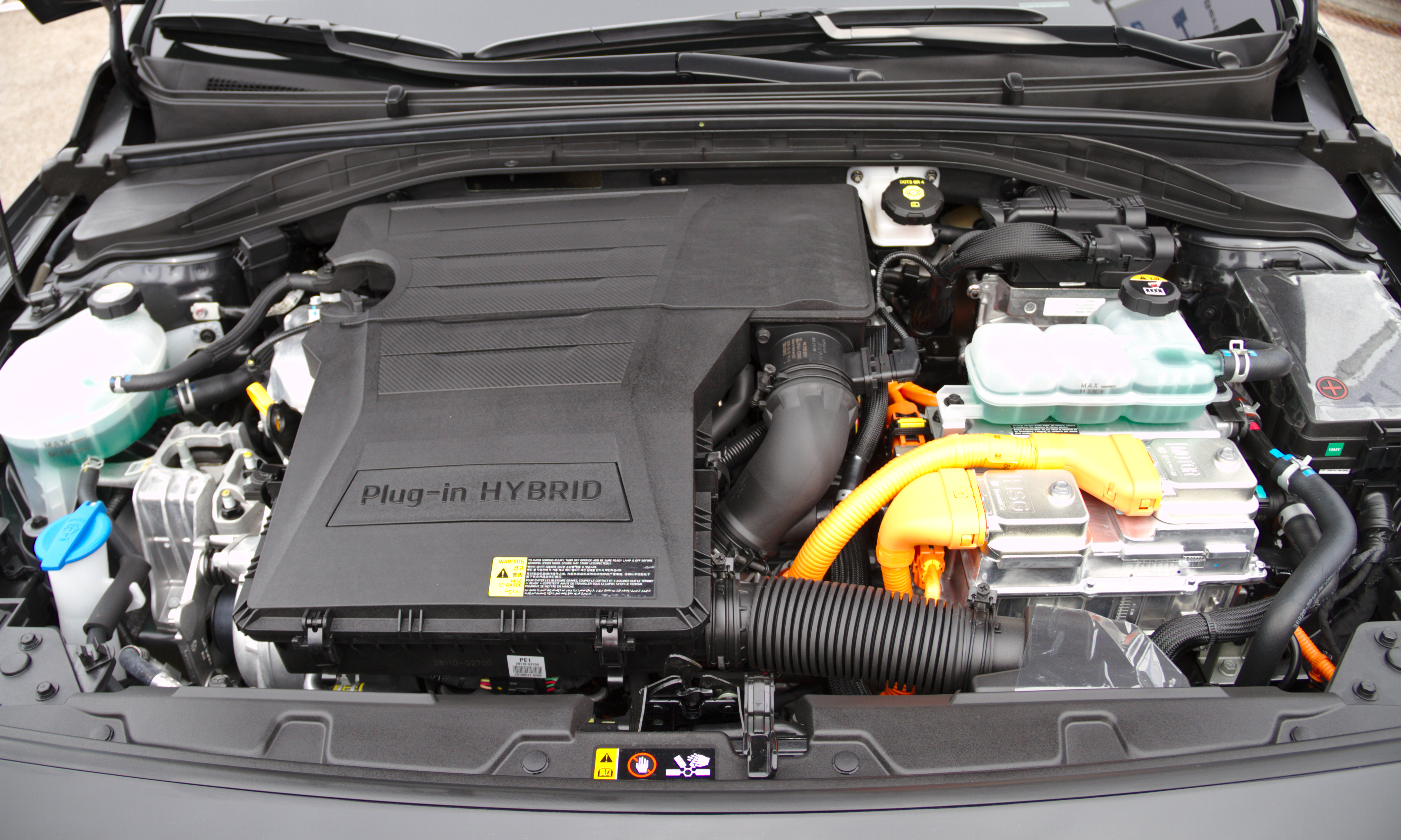 Hyundai_Ioniq_Plug-in at Leonberger Autoschau 2019